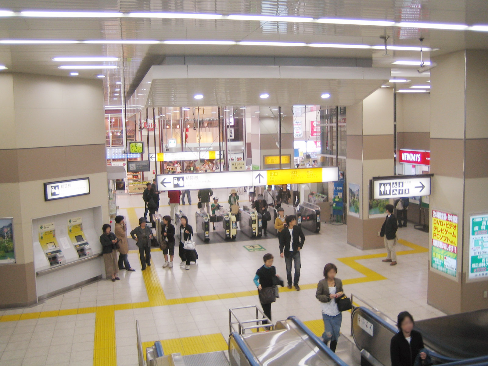 The ticket gate of the Nishi-Ogikubo Station (西荻窪駅), in Suginami, Tokyo, Japan